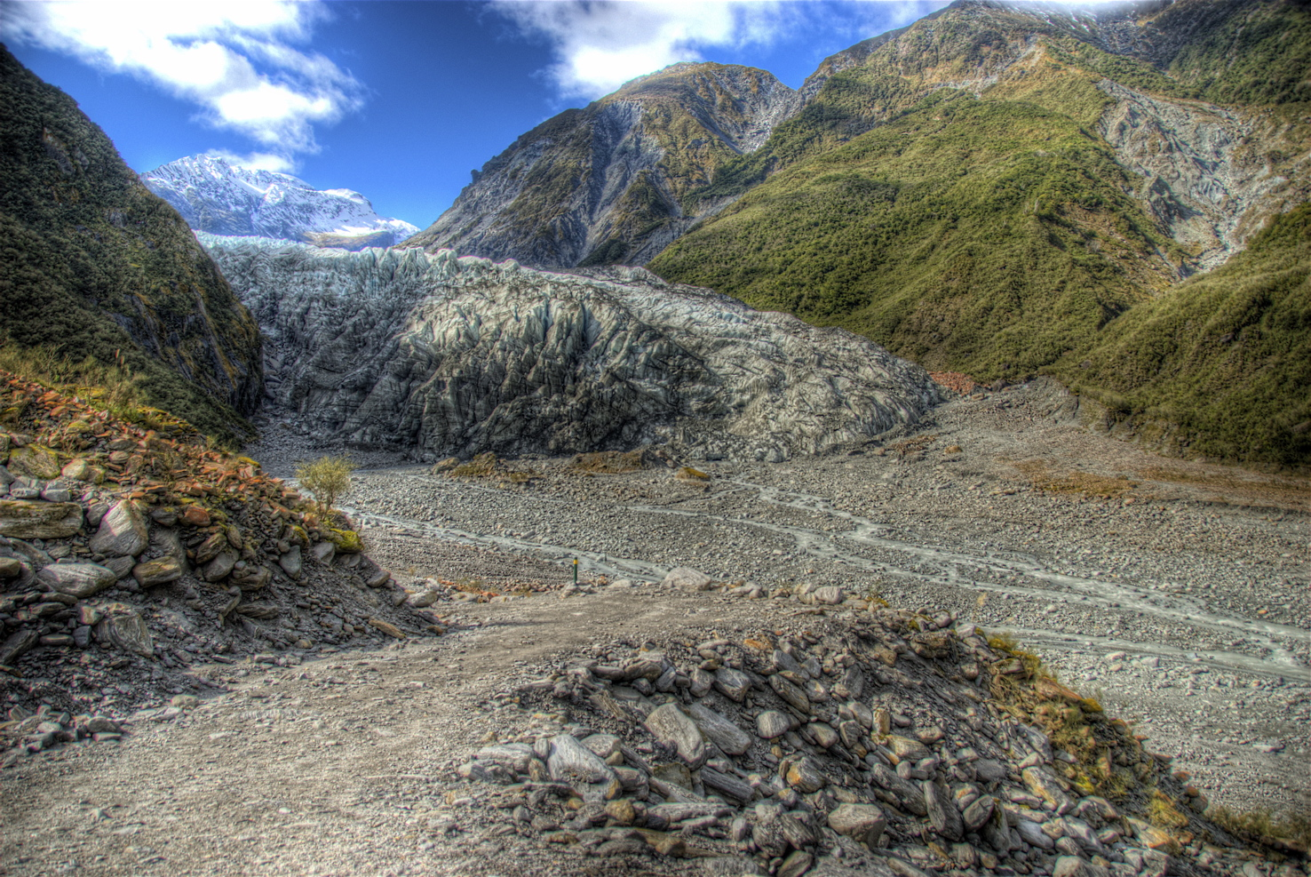 One of the very few glaciers in the world that descend into a rainforest. September 2007.